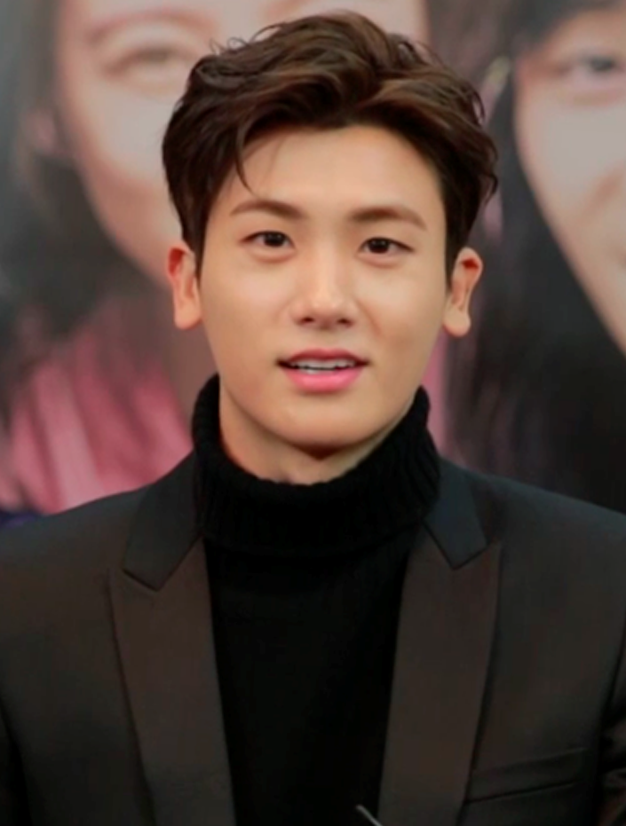 Park Hyung-sik promoting the drama Hwarang, on January 5, 2017.